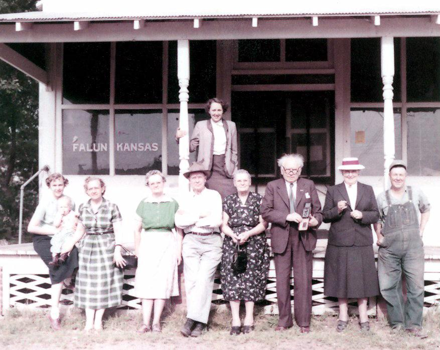 Village group in Kansas l-r: ?, ?, ?, ?, ?, Birgit Ridderstedt, ?, Stefan Anderson, & Ragnhild Anderson & ?, as released by image owner FamSACPlace: Falun, Kansas